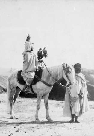 North African falconer (1890-1892)